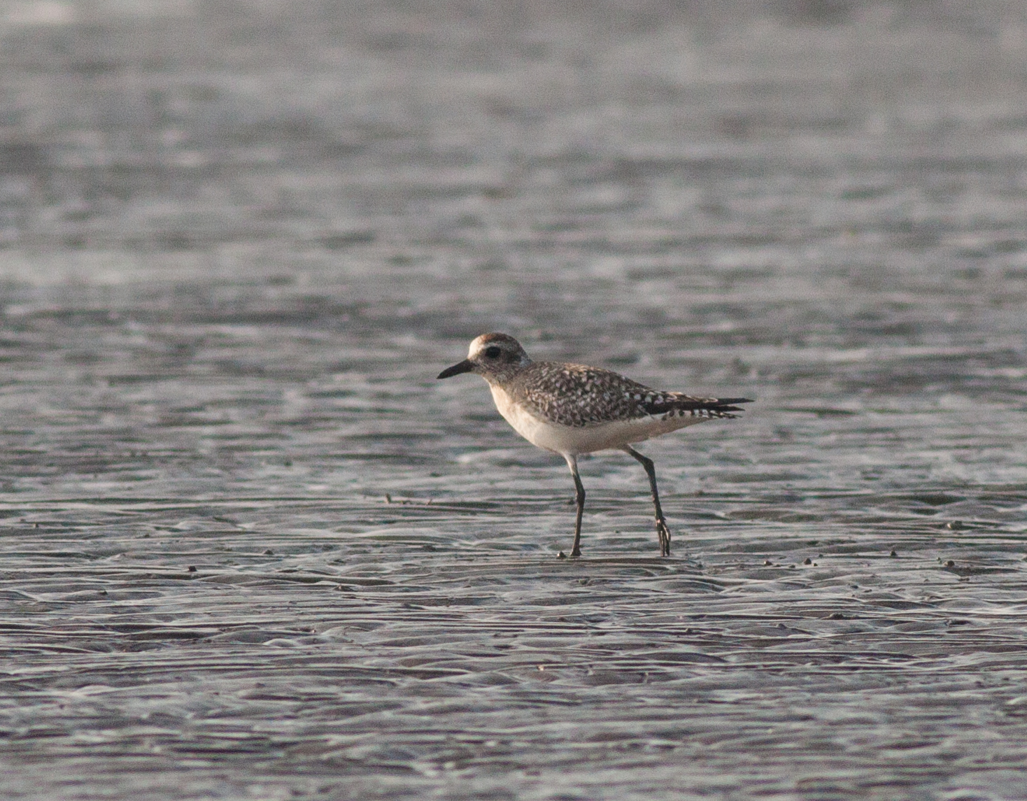 Grey Plover from Arnala, Virar, Maharashtra.